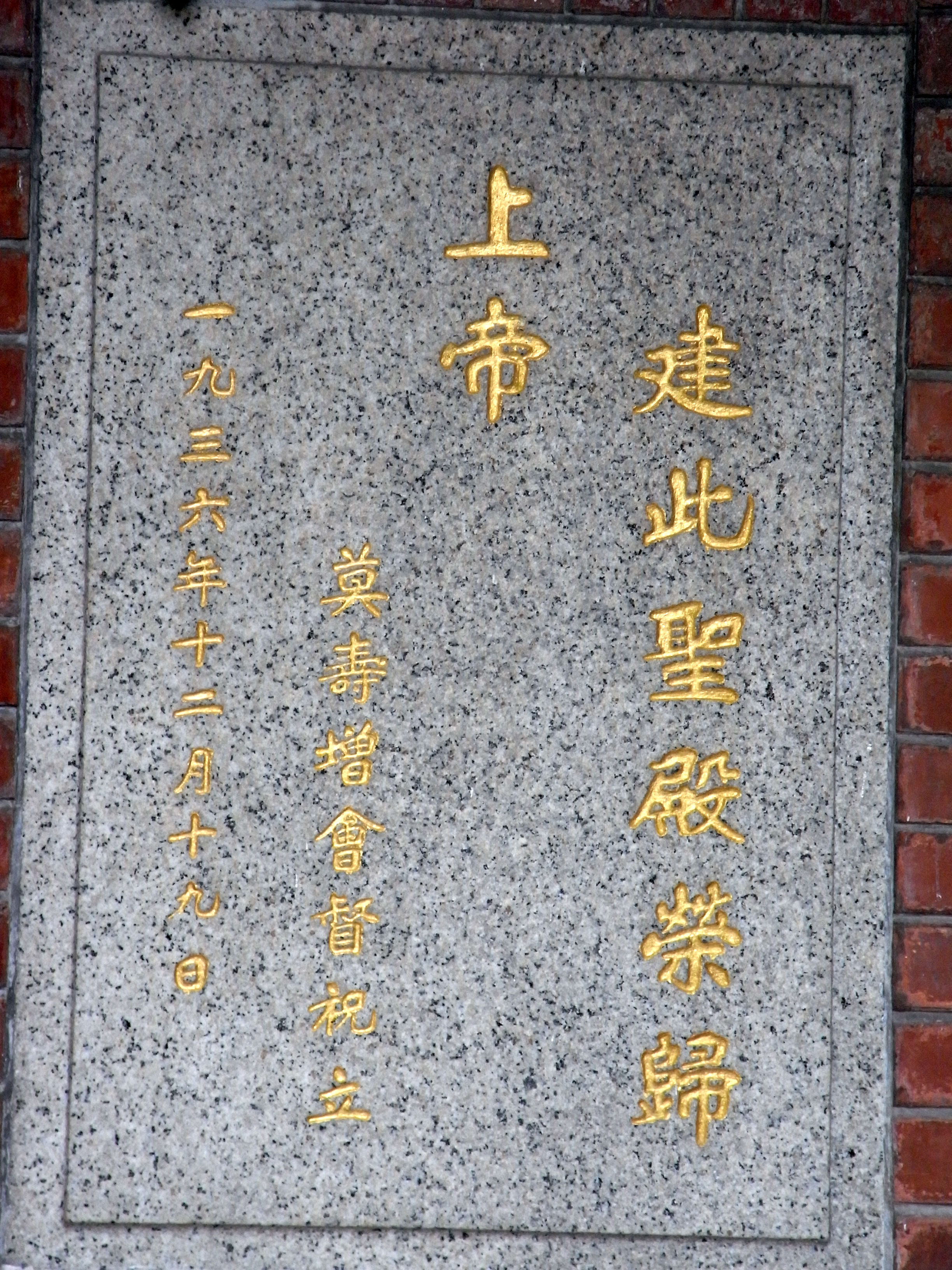 2010年7月 銅鑼灣道 聖馬利亞堂 麻石 奠基石 金漆字